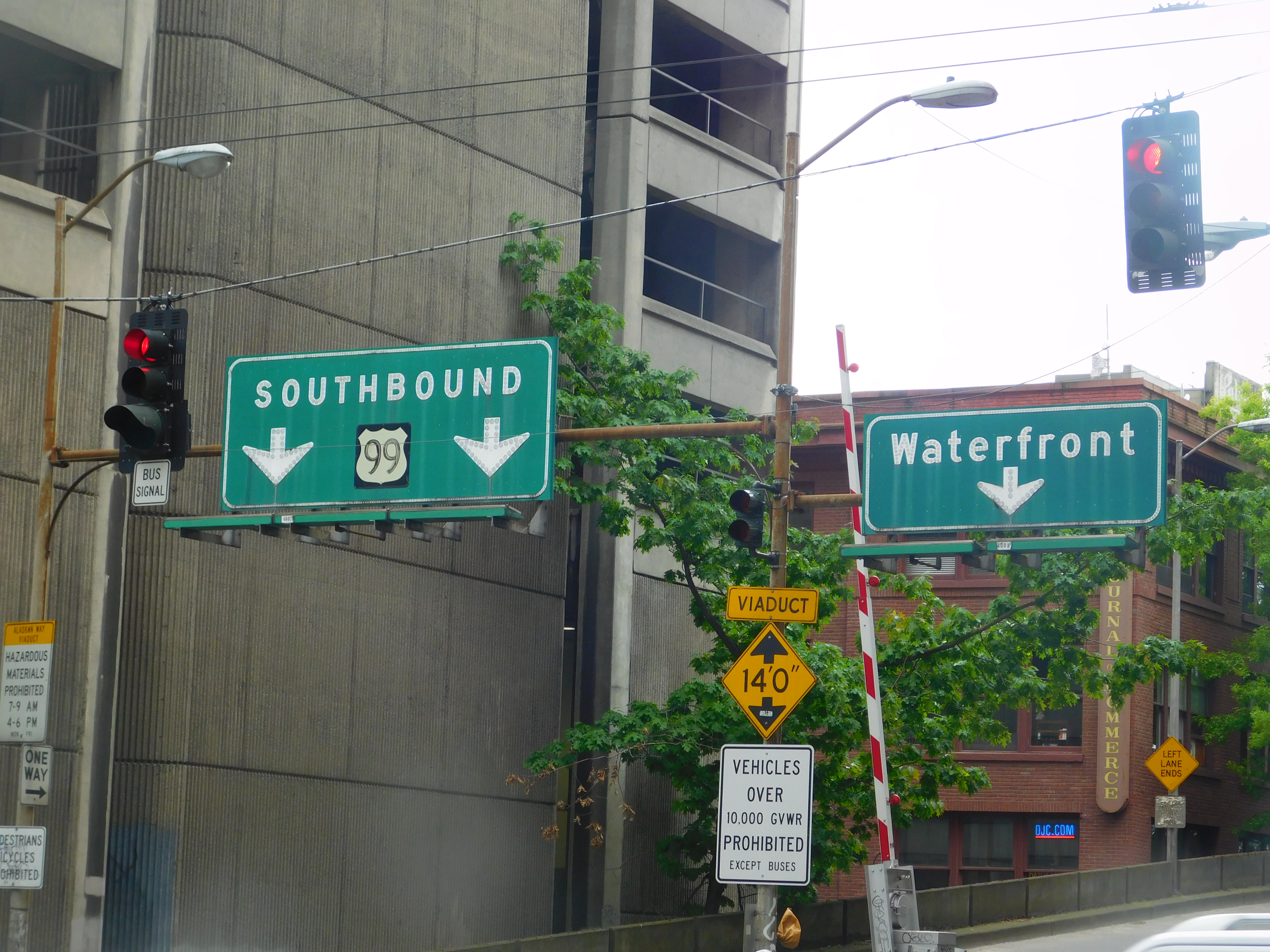 Washington